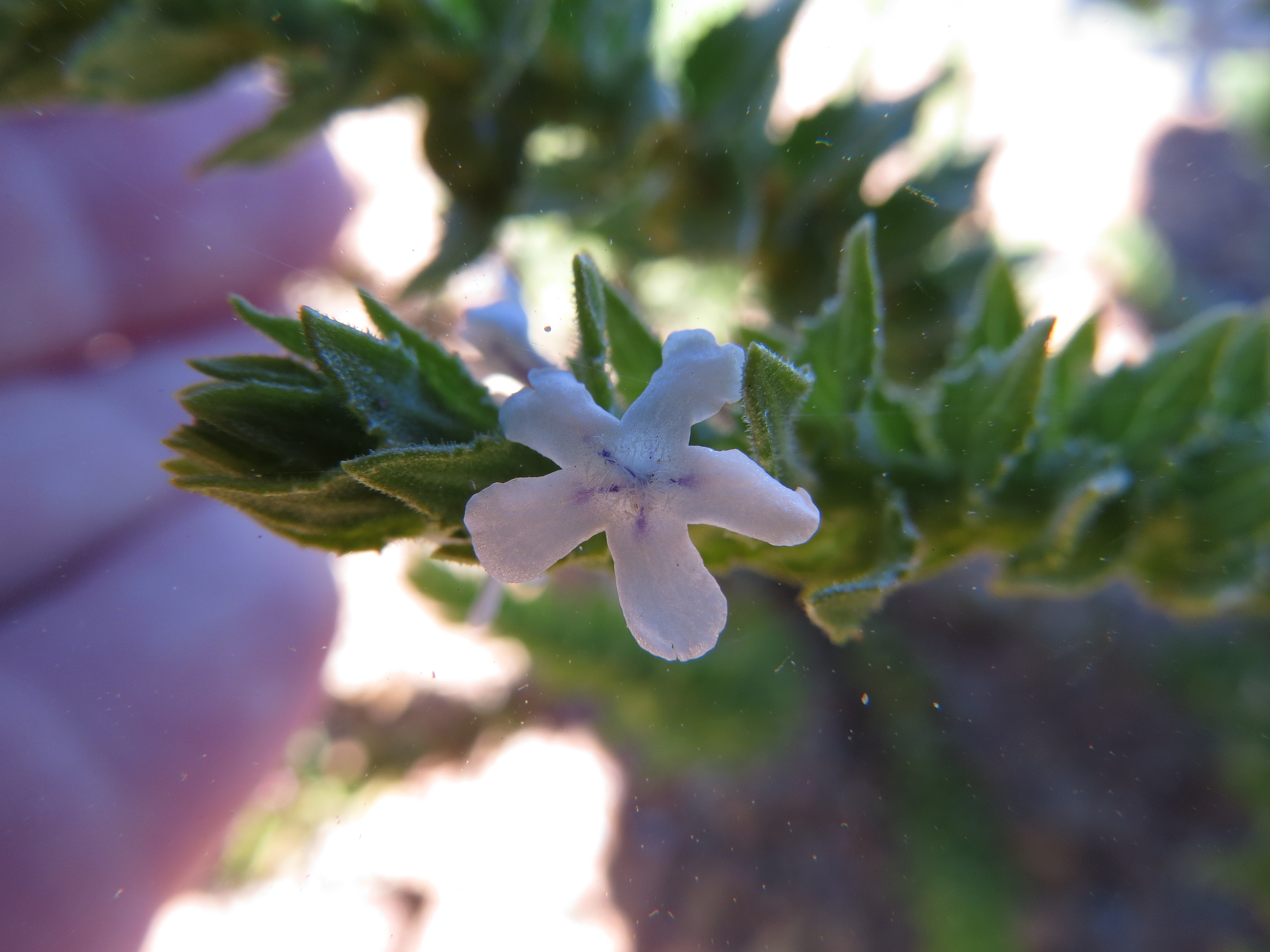 Oftia africana flower, Scrophulariaceae. Growing in mountain Fynbos in summer in a reserve known as "Mountain Mist" near Piketberg, Western Cape South Africa